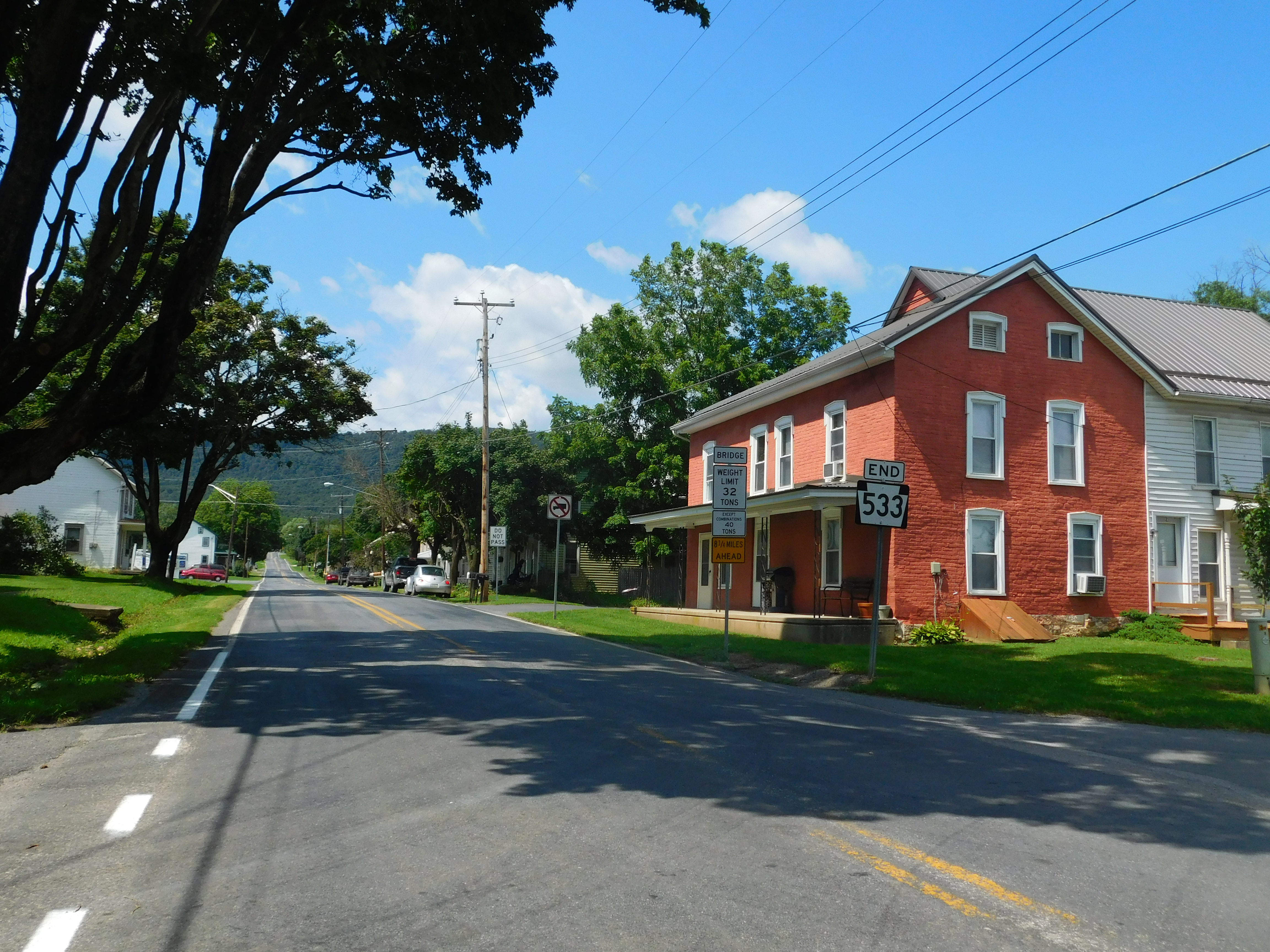 Pennsylvania Route 533 in Upper Strasburg, Pennsylvania.